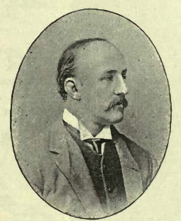 A picture of Charles Gurdon, former captain of the England rugby union team.